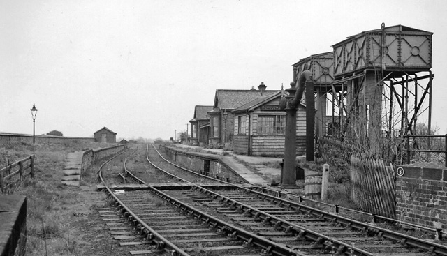 Boroughbridge Station (remains). View NE, towards Pilmoor; ex-NER Pilmoor - Knaresborough branch, which was closed as early as 25/9/50, although open for goods Brafferton - Knaresborough until 5/10/64. (The two large water-tanks are prominent).